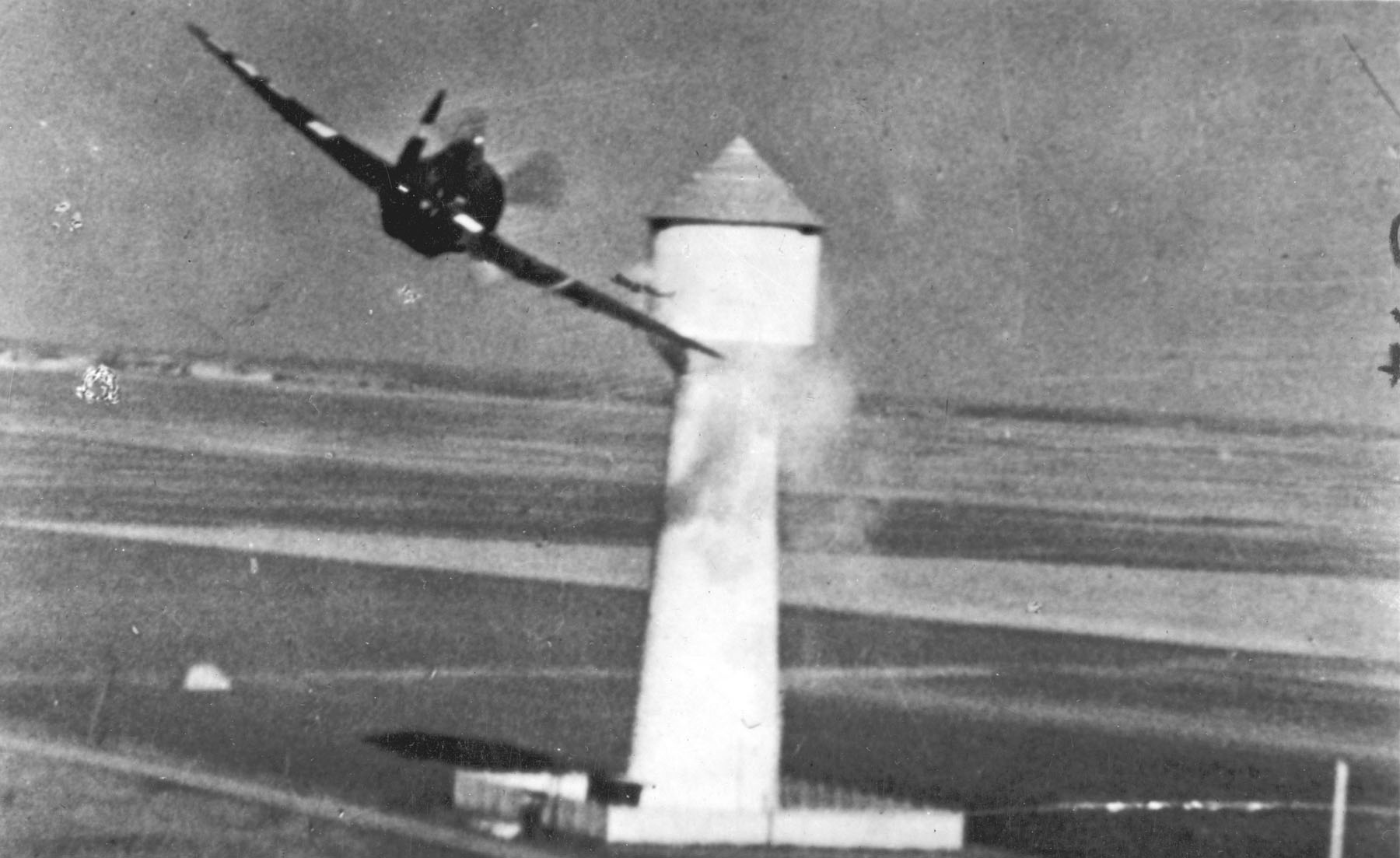 An 8th U.S. Air Force Republic P-47D Thunderbolt attacks a tower on a German airdrome in occupied France, in 1944. Note: The original caption identifies this tower as a "flak tower". However, it resembles more a normal French water tower. Also no guns are visible, leading to the conclusion that the original caption was a misprint.